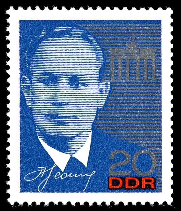 Ausgabepreis: Pfennig First Day of Issue / Erstausgabetag: Auflage: Entwurf: Druckverfahren: Michel-Katalog-Nr: Ländercode-MiNr: Licensing This file is most likely NOT in the public domain. It has been marked for review, and will be deleted in due course if the review does not find it to be in the public domain. This file was previously considered to be in the public domain as a German stamp; it is possible that it is in the public domain for other reasons, in which case a new rationale will be applied as part of the review process. See below for the previous rationale. Previous public domain rationale, no longer applicable This stamp is in the public domain in Germany because it was released by the postal administration of the German Democratic Republic or the Soviet occupation zone (Deutschen Post der DDR) whose legal successor is the Federal Republic of Germany. Thus it is an official work according to German copyright law (§ 5 Abs. 1 UrhG).